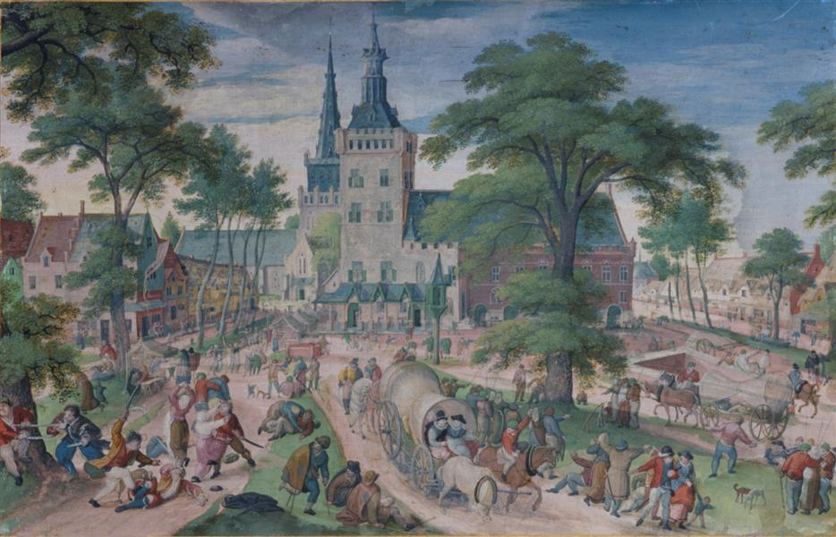 Village Kermesse, by Hans Bol (ca 1582). Tempera on vellum, 14 x 21 cm. The painting shows the belfry and church of Bailleul (Belle) Now in the Gemäldegalerie Alte Meister, Dresden (Gal.-Nr. 823).